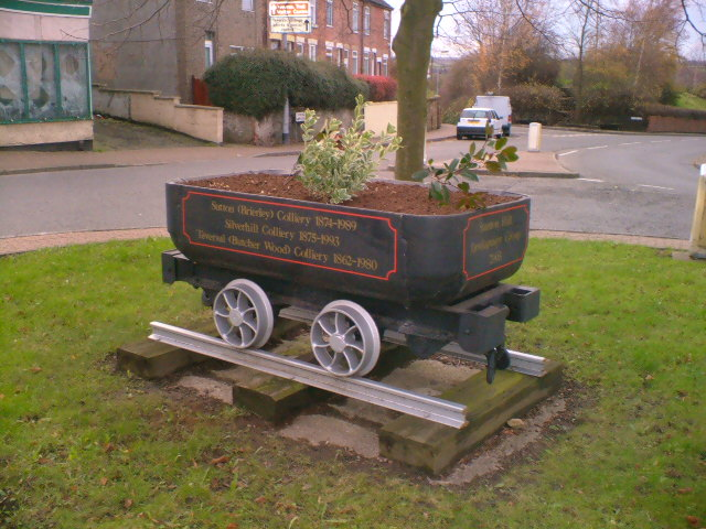 Tub on roundabout The tub has details of the local pit closures painted on its sides